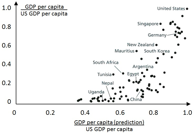 Predicted versus actual GDP per worker. The figure shows how much one would expect each country’s GDP to be higher based on the data on average years of schooling. The calculation is made by Weil (Weil, D. (2009) Economic Growth. Pearson Addison-Wesley.) based on data from Hall and Jones concerning the returns on education (Hall, J. & Jones, R (1999) Why Do Some Countries Produce So Much More Output per Worker than Others? Quarterly Journal of Economics 114: 83–116.). The GDPs predicted by Weil’s calculations are plotted against actual observed GDPs. The results indicate that variation in education explains some, but not all, of the variation in GDP.